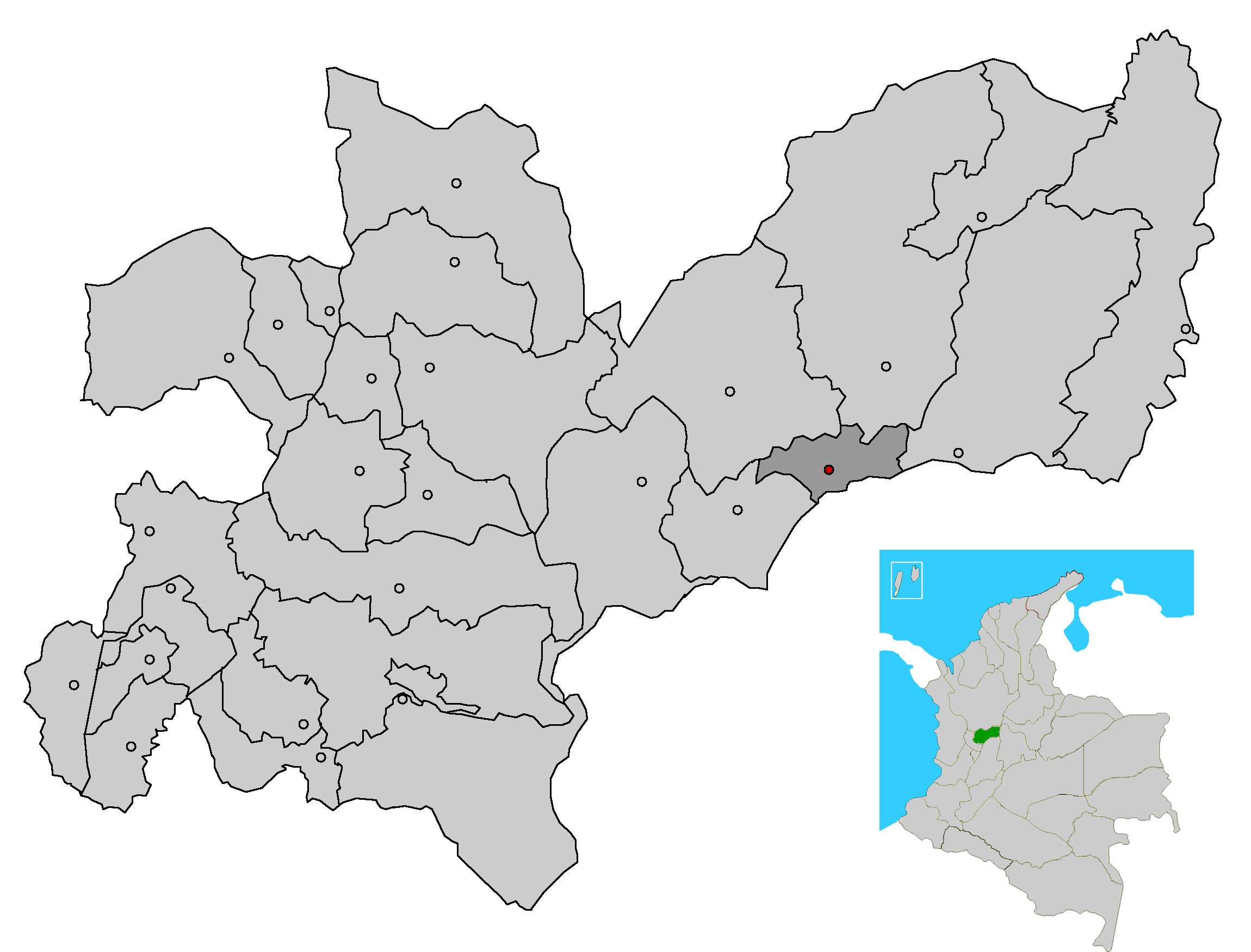 Image depicting map location of the town and municipality of Marquetalia in Caldas Department, Colombia